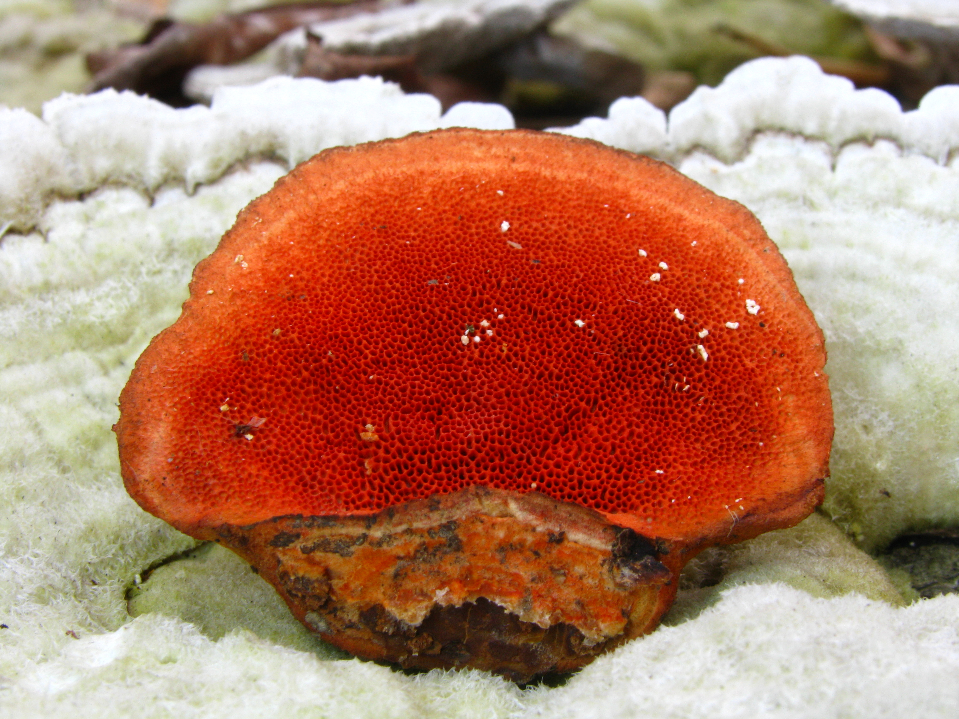 Pycnoporus cinnabarinus (Jacq.) P. Karst. Image location: Egypt Valley Wildlife Area, Belmont Co., Ohio, USA Lone specimen on a really big tree. Recognized by sight For more information about this, see the observation page at Mushroom Observer.